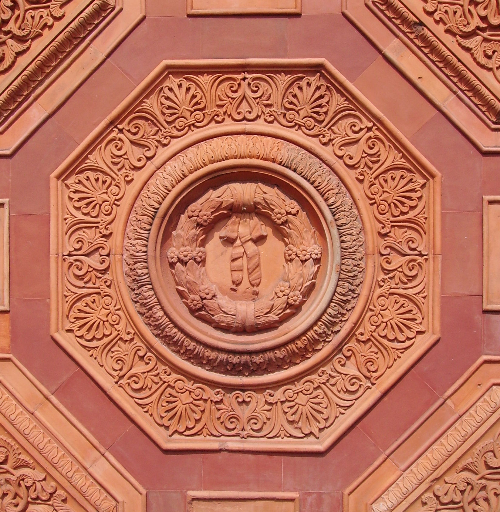 zoological garden and botanical garden Wilhelma in Stuttgart, Germany